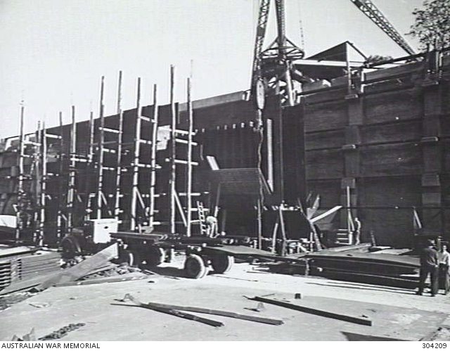 BRISBANE, QLD. C.1942. THE DOCK GATE UNDER CONSTRUCTION IN THE UNFINISHED CAIRNCROSS GRAVING DOCK. (NAVAL HISTORICAL COLLECTION)